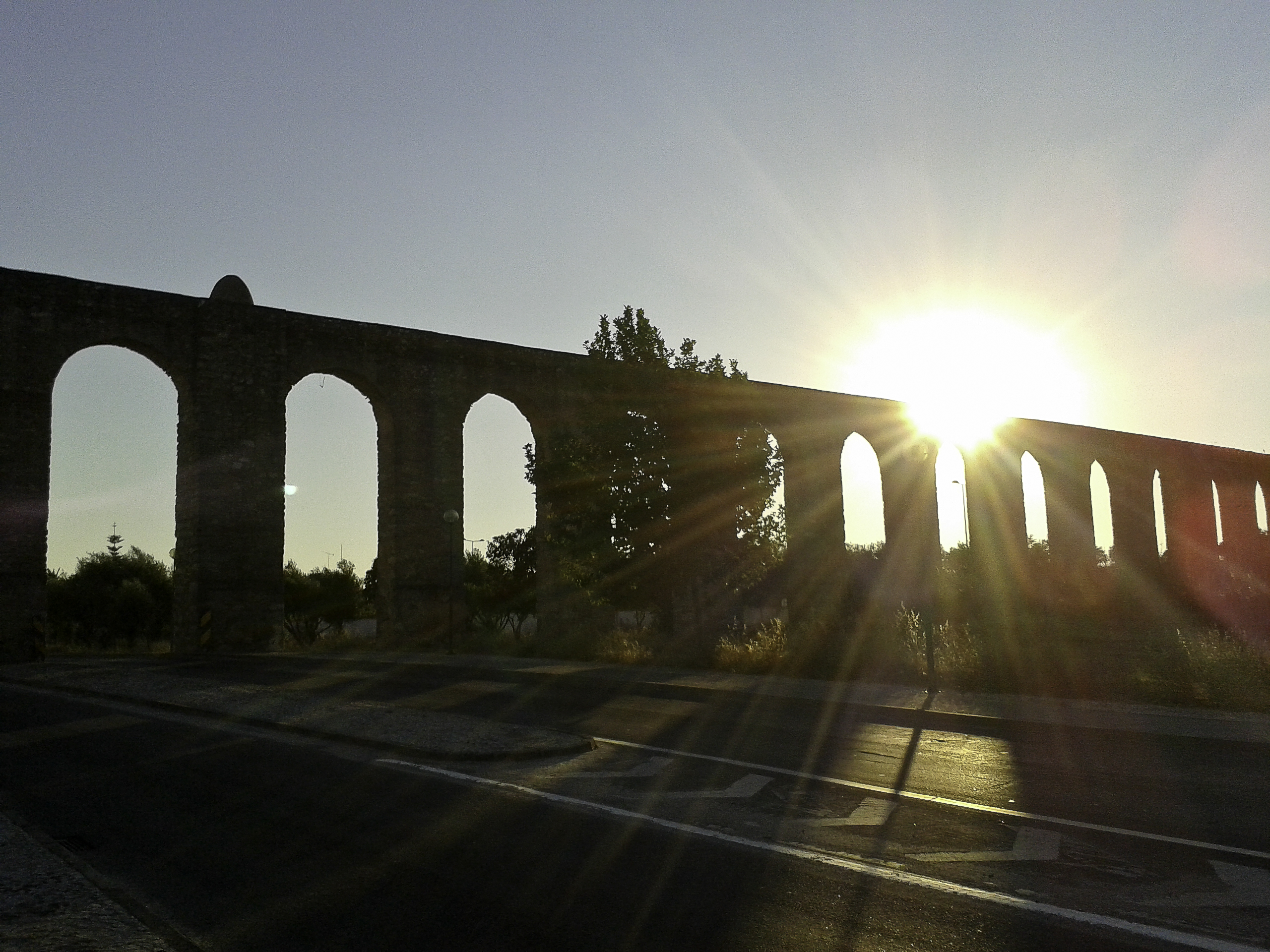 Arcadas do Aqueduto da Água da Prata na circular à muralha